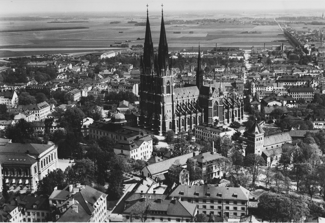 Aerial view of Uppsala old town with university and Domkyrka (cathedral). Historical photo of August 1940.